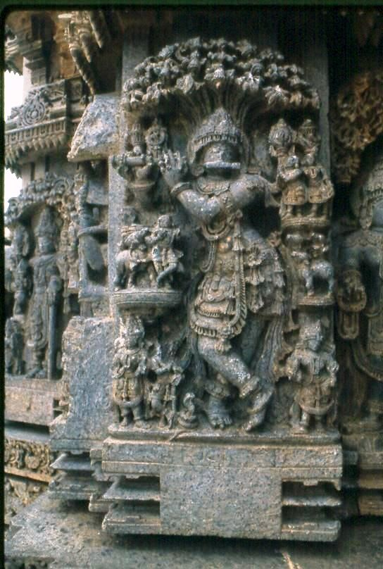 Krishna Gopala, Hoysala Dynasty, Somnathpur Temple, Karnataka, India